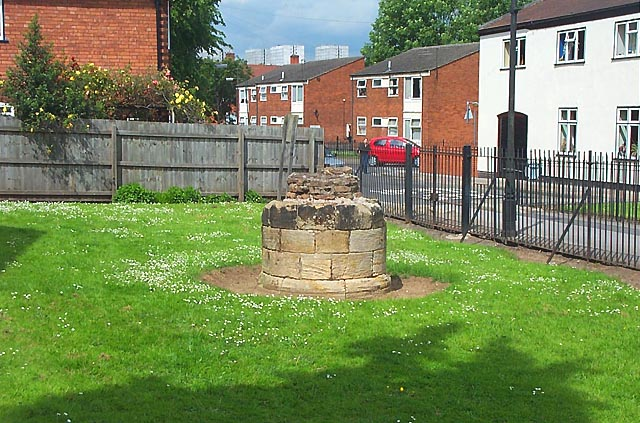 Lenton Priory - All that remains of what was once one of the greatest and most important religious houses in the Midlands is the base of a Norman column. It contrasts sharply with the surrounding buildings and even more so with the high rise blocks in the distance in the centre of Nottingham. This is where Philip Marc was buried.